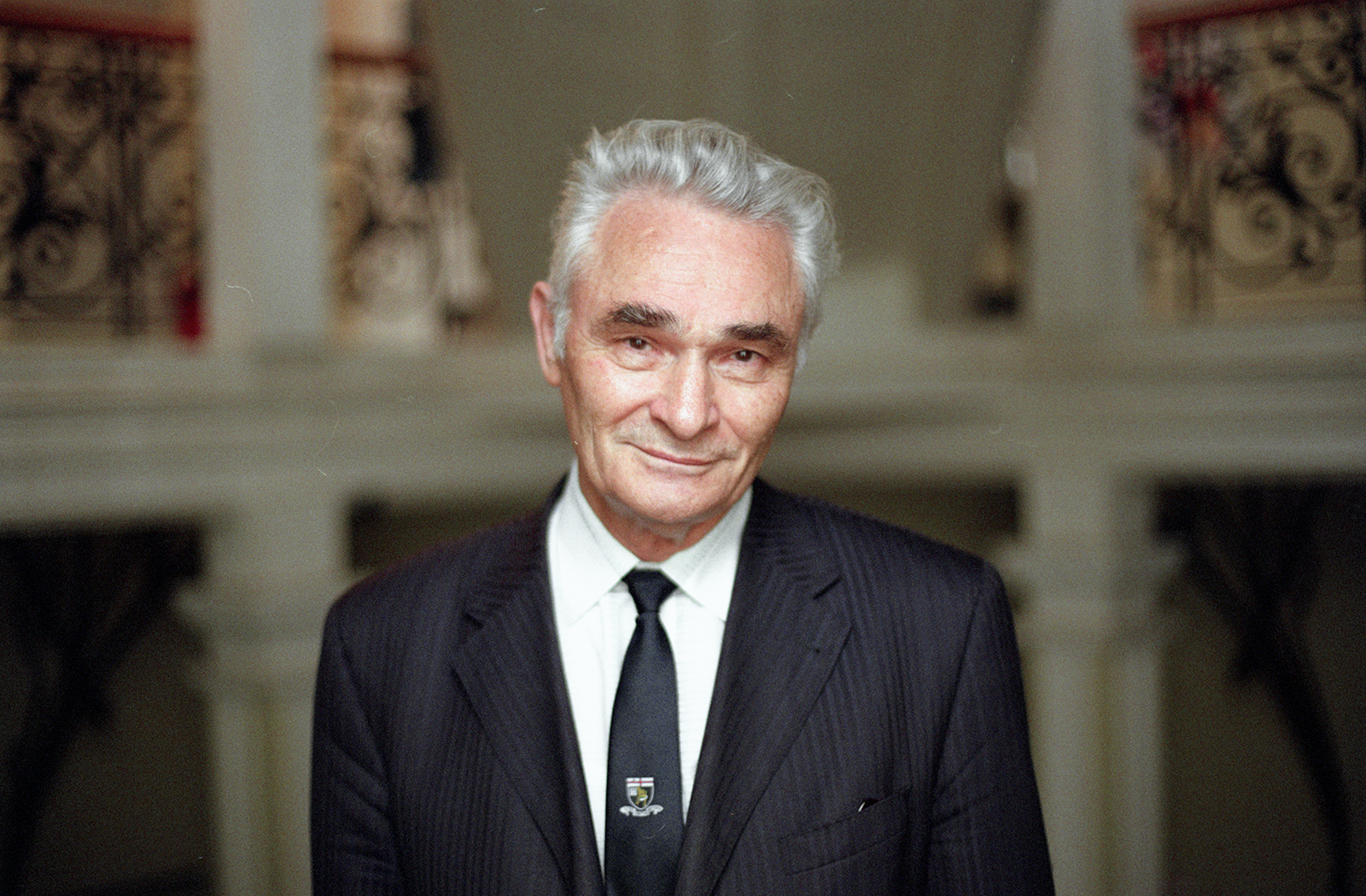 Evgeniy Tkachenko, Minister of Education of Russia under President Boris Yeltsin (1992-1996), in the Institute of Educational Management of Russian Academy of Education. June 29 2017